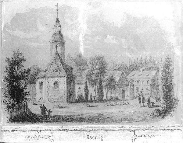 Old church in Leipzig-Loessnig, Raschwitzer Strasse